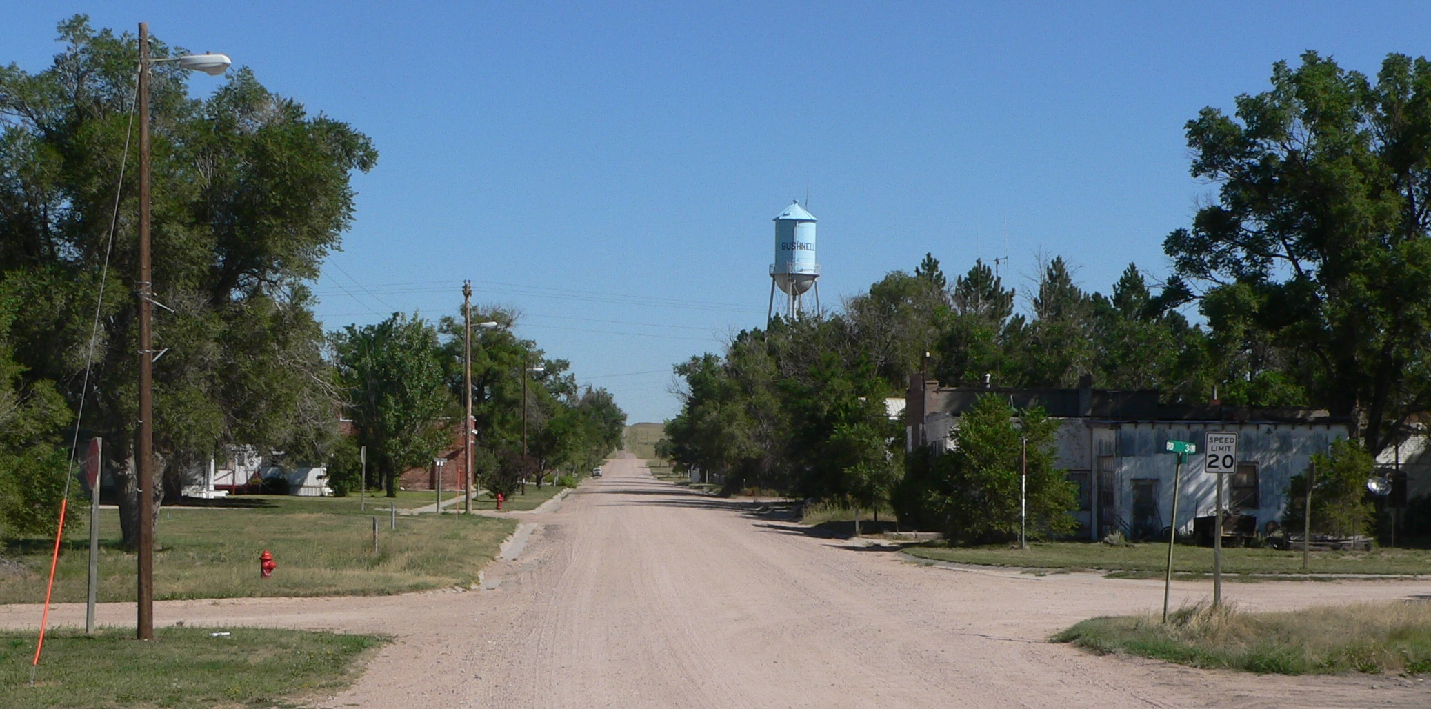 Bushnell, Nebraska; looking north up Birch Street (County Road 17).